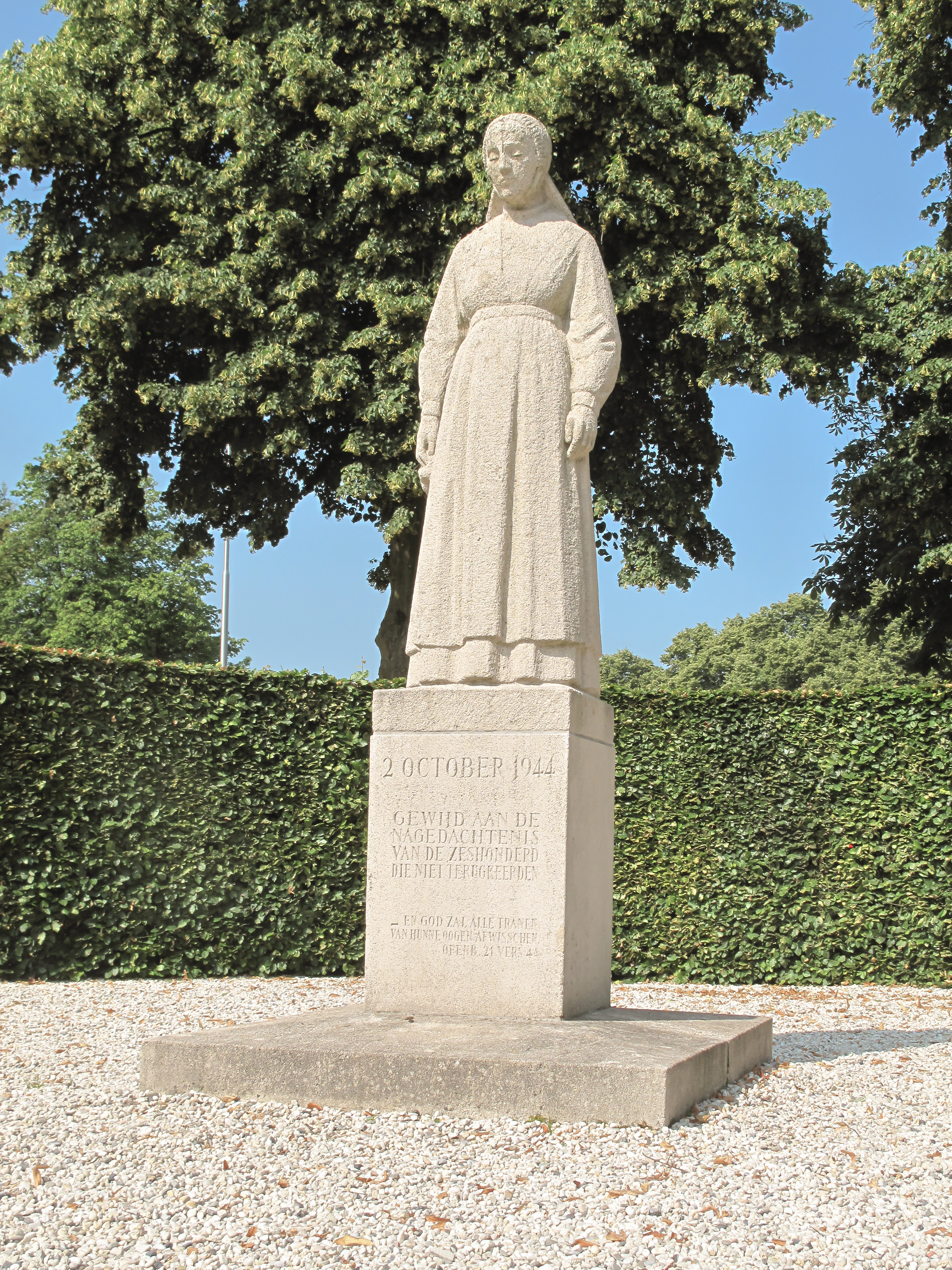 Putten, war memorial in Herdenkingshof